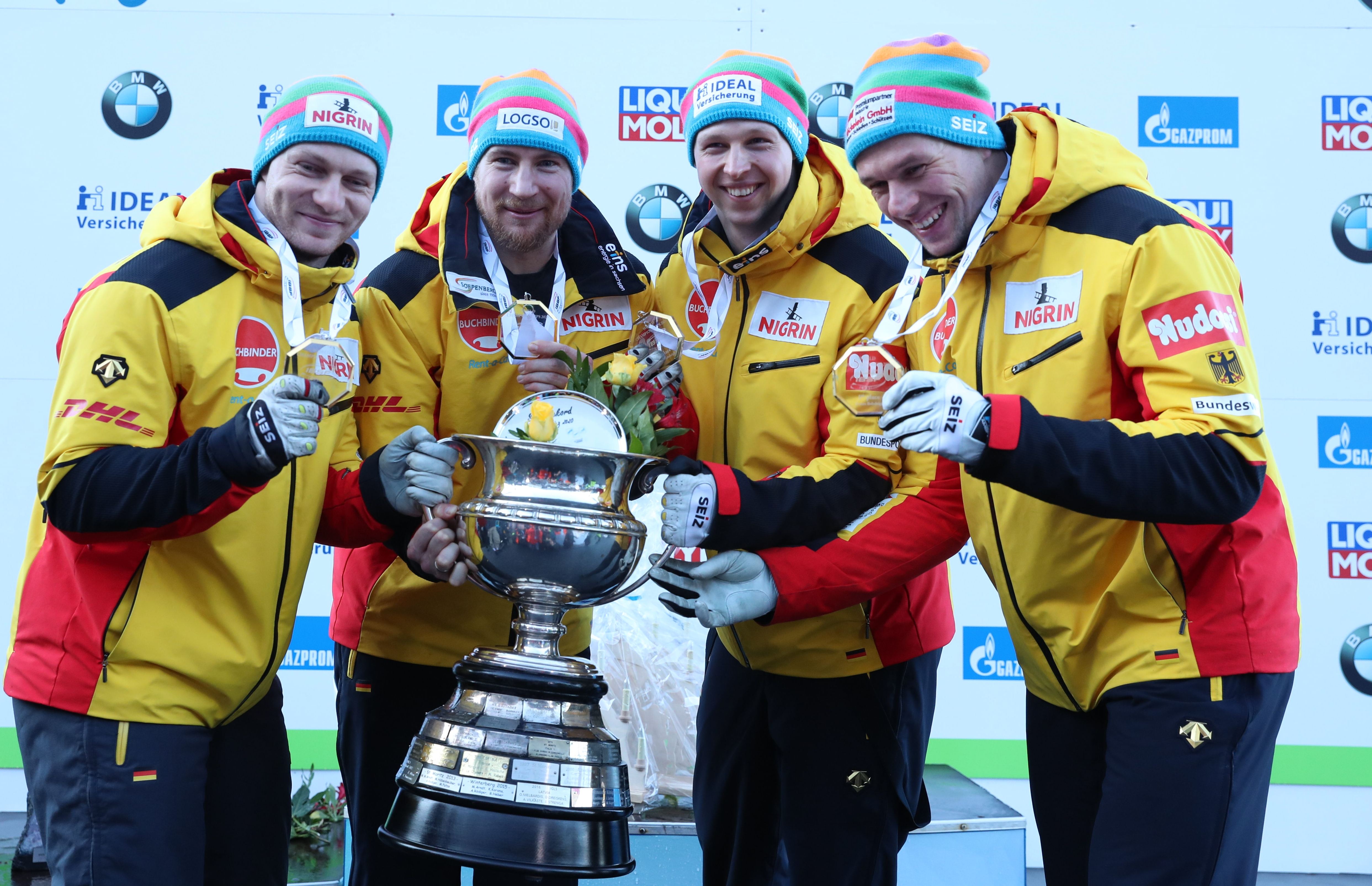 Medal Ceremony 4-man bobsleigh at the Bobsleigh and Skeleton World Championships 2020 in Altenberg